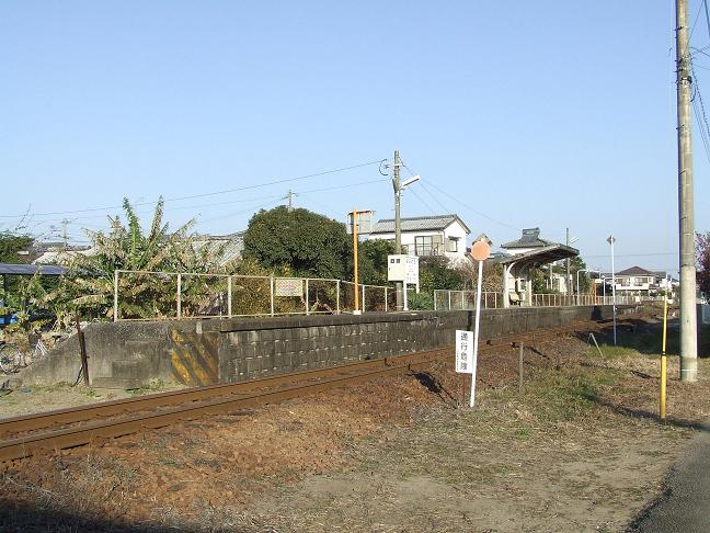 Mimamikata Station on Nichinan Line